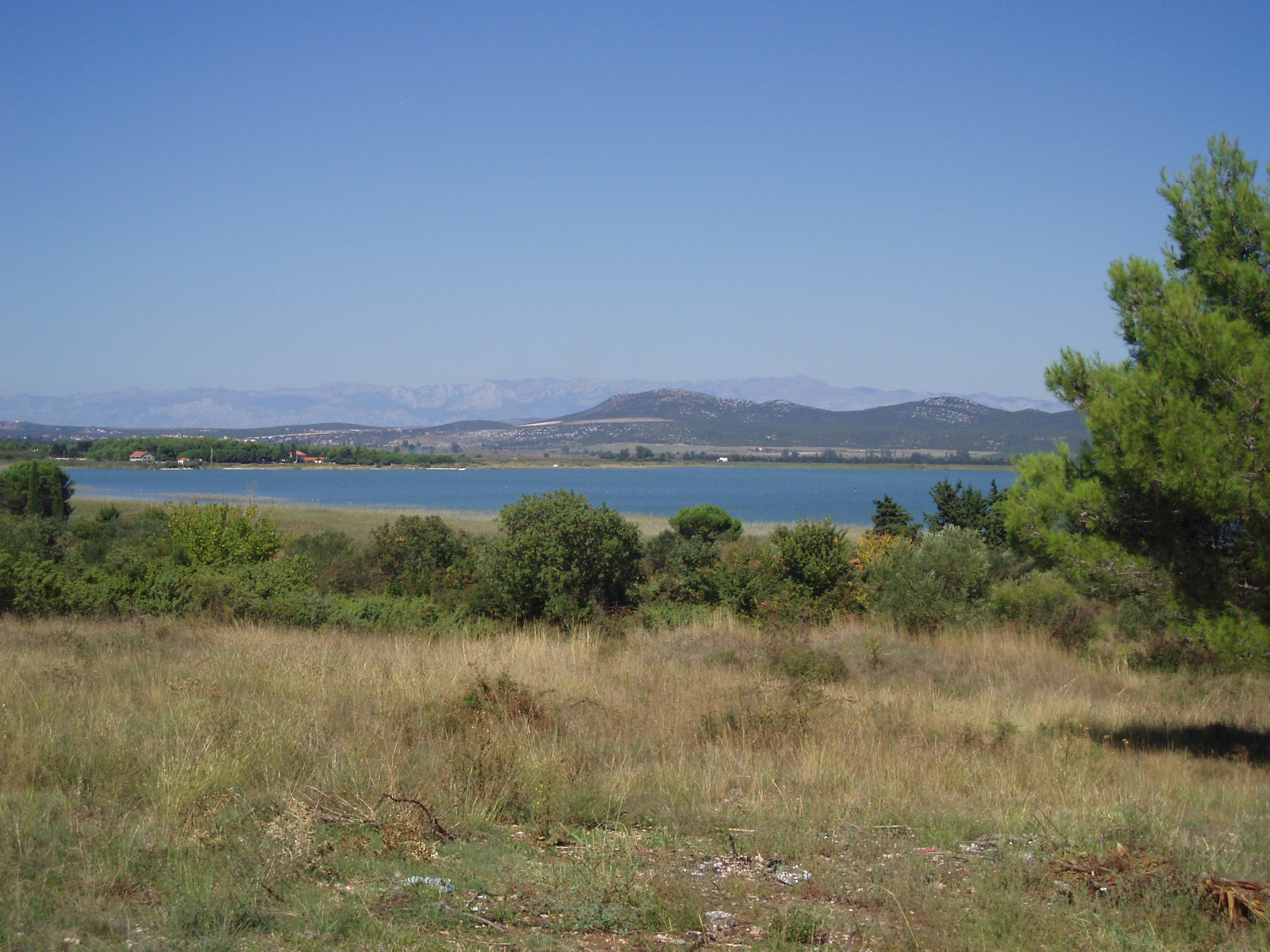 Lake Vrana from road